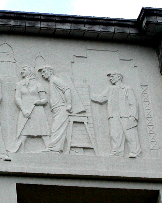 Frieze on a house in Berlin-Friedrichshain, Marchlewskistraße, showing a Trümmerfrau.